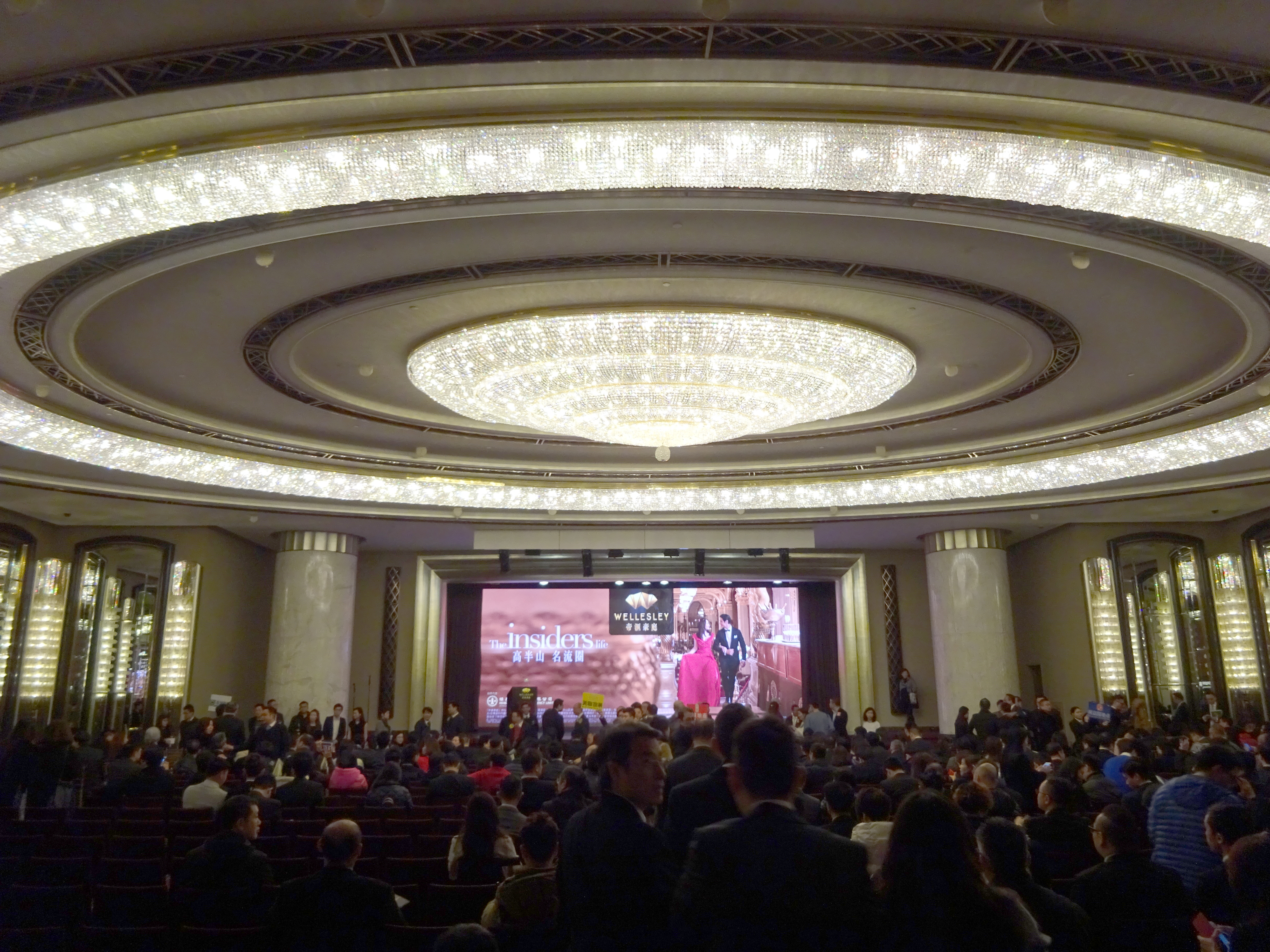 帝滙豪庭, Wellesley briefing of Henderson Land, at Grand Hyatt Hotel, Wan Chai, Hong Kong